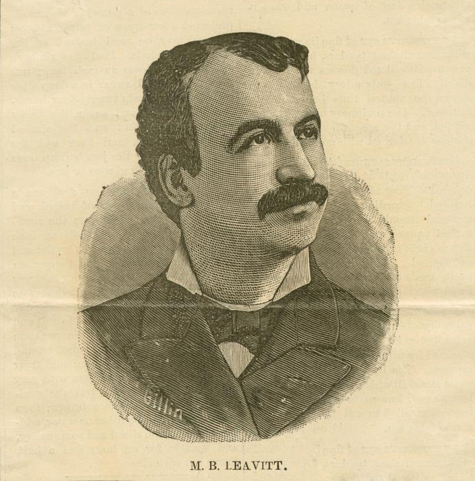 Michael B. Leavitt